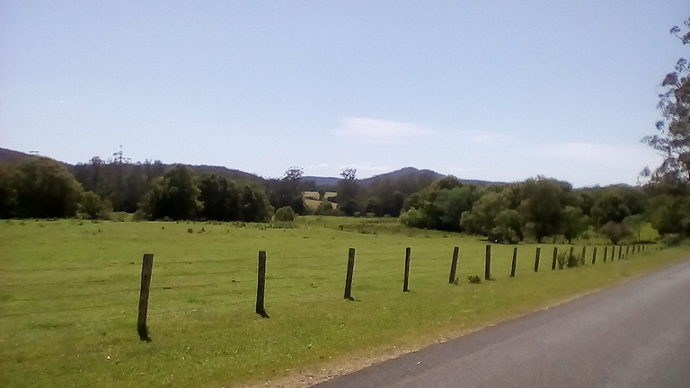 Landscape of Rolland's Plains New South Wales. Showing Cogo Parish in the foreground and Ballengary Parish Macquarie County in the distance.